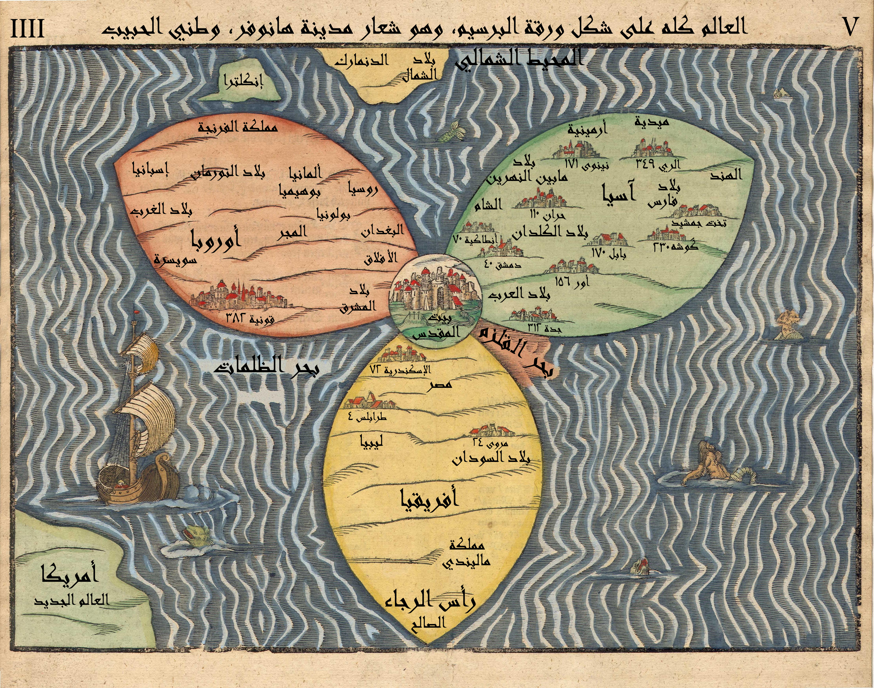 Stylized world map in the shape of a clover-leaf (the three classical continents of Europe, Asia, Africa), with Jerusalem at the center, with additional indication of Great Britain, Scandinavia and America / the New World. Page 4f. of Die eigentliche und warhafftige gestalt der Erden und des Meers (1581), printed in Magdeburg.